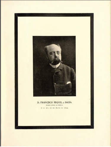 Retrato de Miquel y Badia que aparece en la revista Hispania en el nº 7